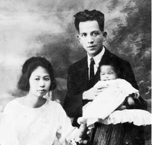 Yuan Zhenying (1894-1979) and his family